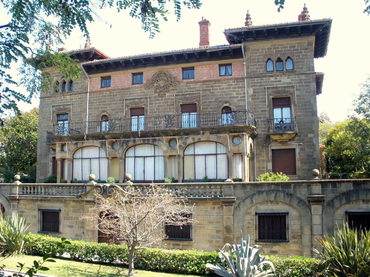 Palacio del Marqués de Olaso, en Neguri, Guecho (Vizcaya)